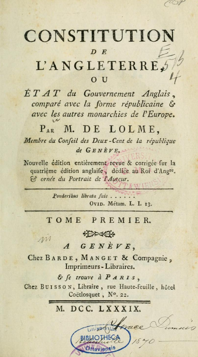 The title page of Jean-Louis de Lolme (1789) Constitution de l'Angleterre, ou État du gouvernement anglais, comparé avec la forme républicaine et avec les autres monarchies de l'Europe [The Constitution of England, or, The State of the English Government, Compared with the Republican Form and with the Other Monarchies of Europe], Geneva: Chez Barde, Manget & Compagnie , Imprimeurs-Libraires. & et se trouve à Paris , Chez Buisson , Libraire , Rue Haute-feuille , hôtel Coëtlosquet , No. 22 OCLC: 27983401.